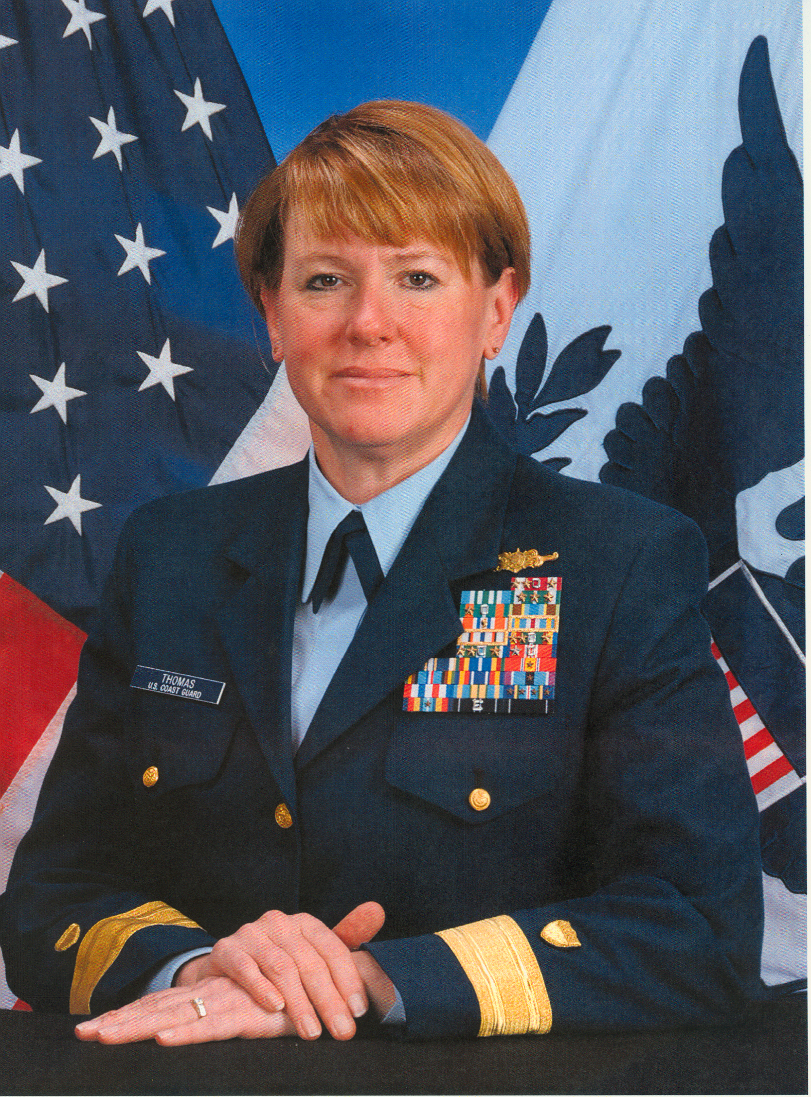 Rear Admiral Cari B. Thomas, Fourteenth District Commander, United States Coast Guard